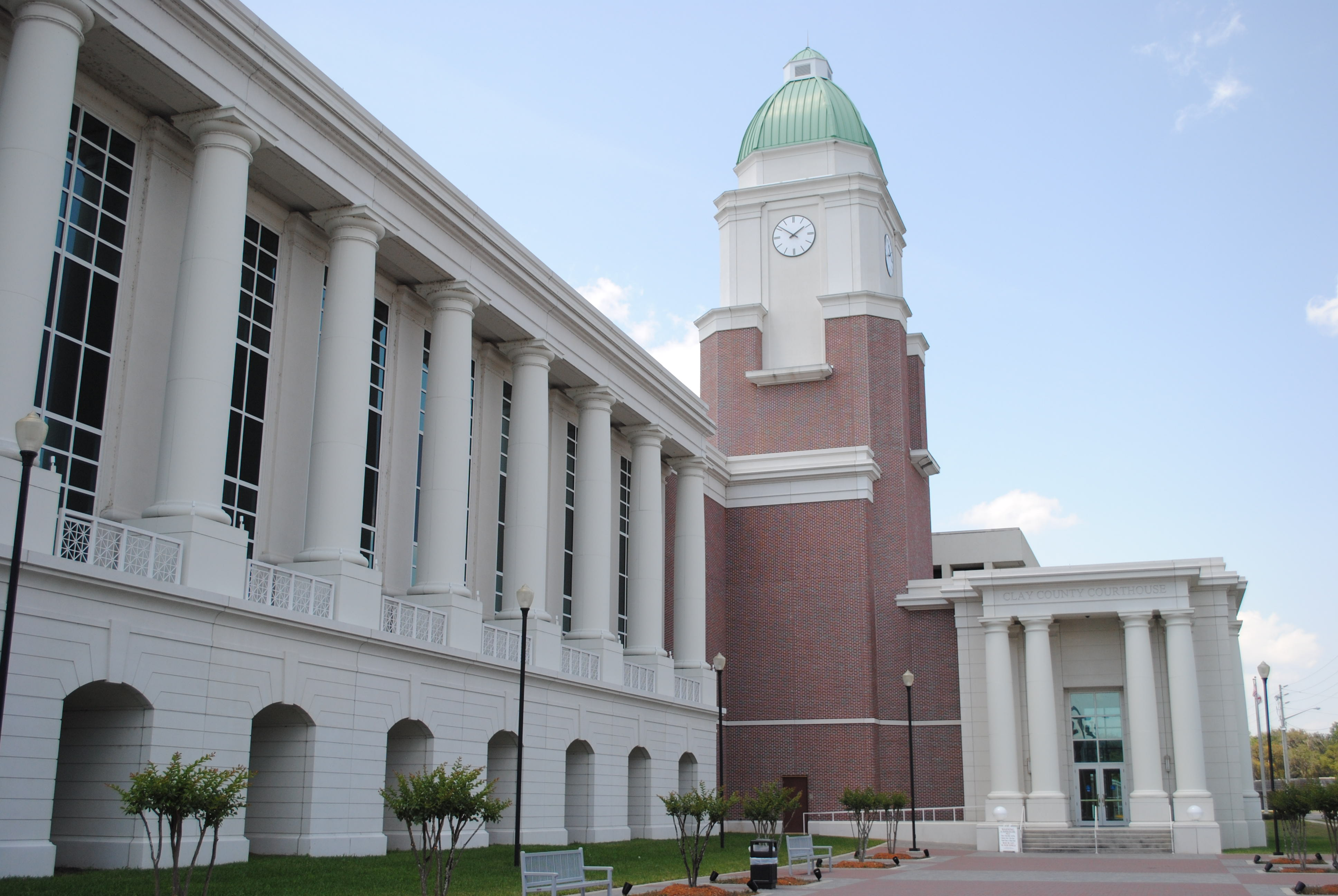 Courthouse in Green Cove Springs, Florida.